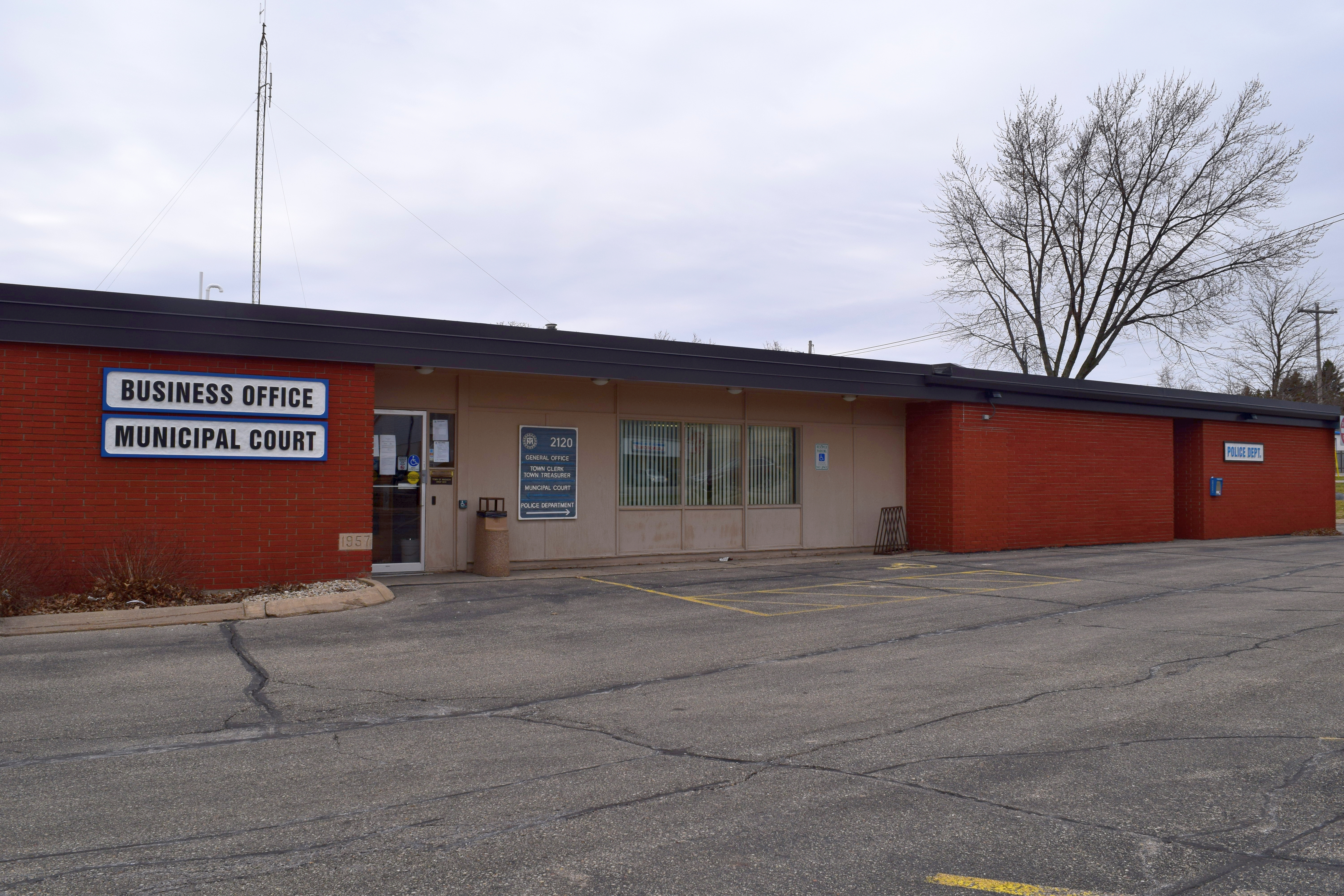 The Town of Madison Municipal Building, in the town of Madison, Wisconsin (not to be confused with the City of Madison).